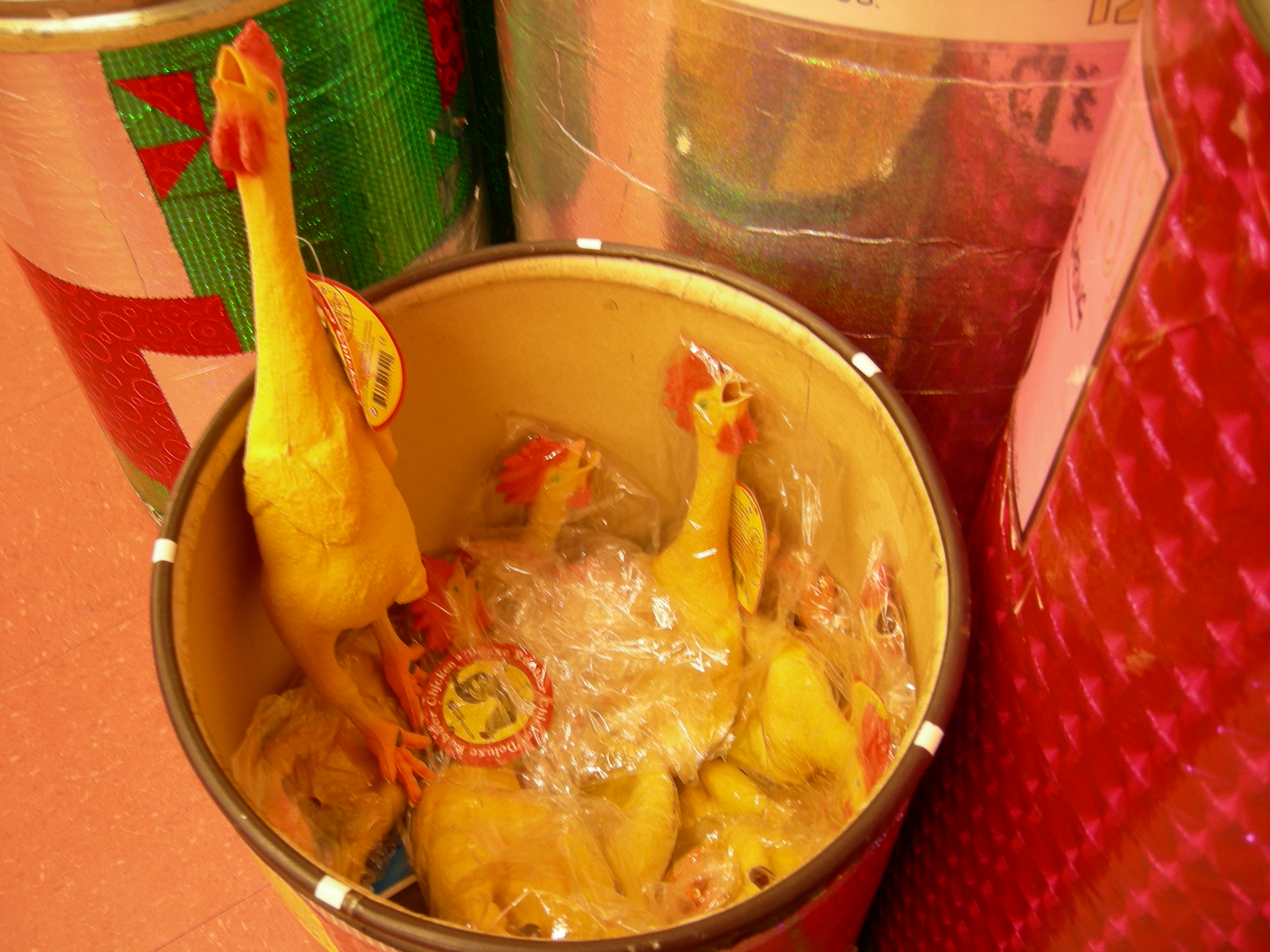 Rubber chickens, Archie McPhee store, Ballard, Seattle, Washington.